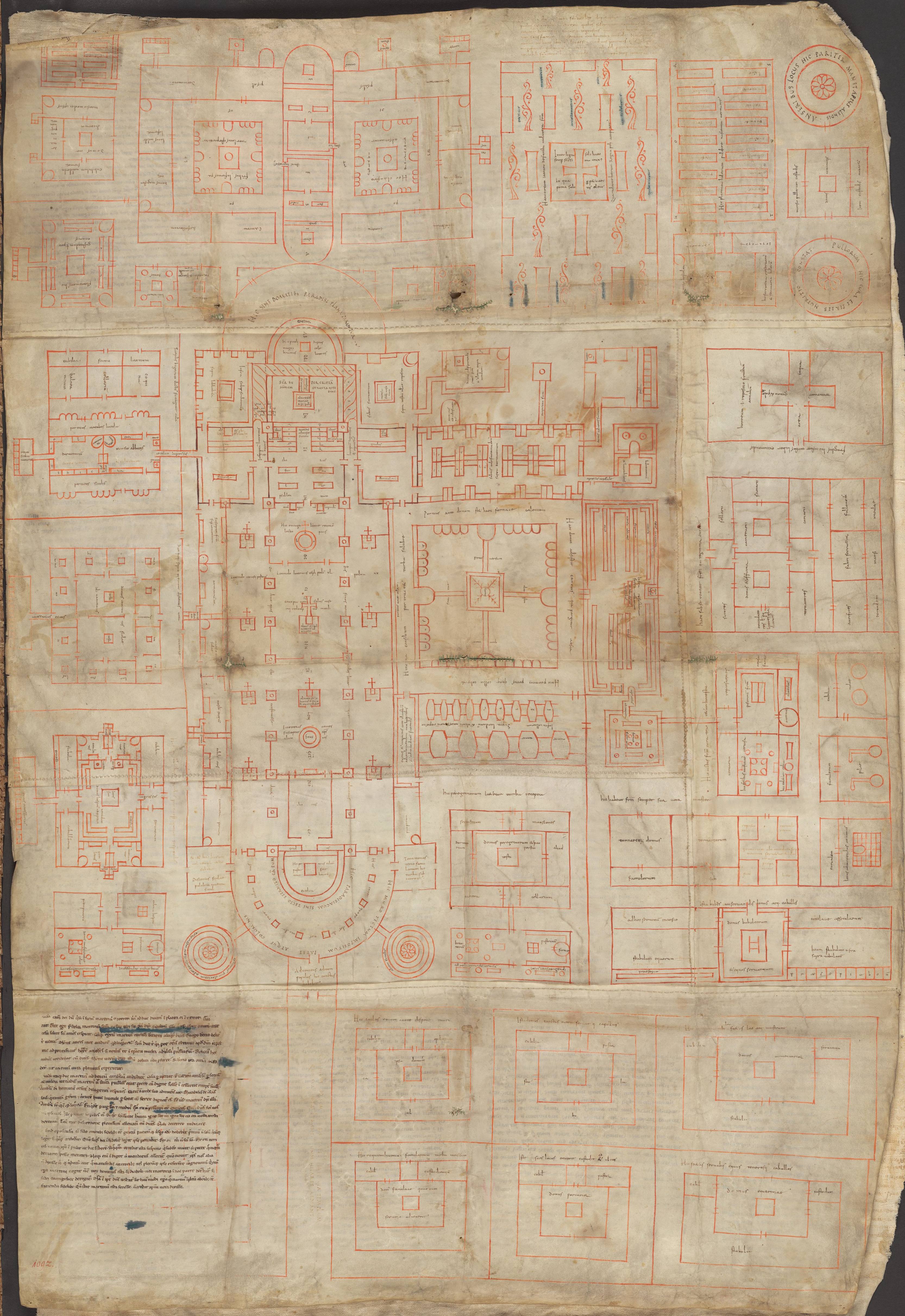 Recto of Plan of Saint Gall see catalogue entry (in German) on Stiftsbibliothek Sankt Gallen.